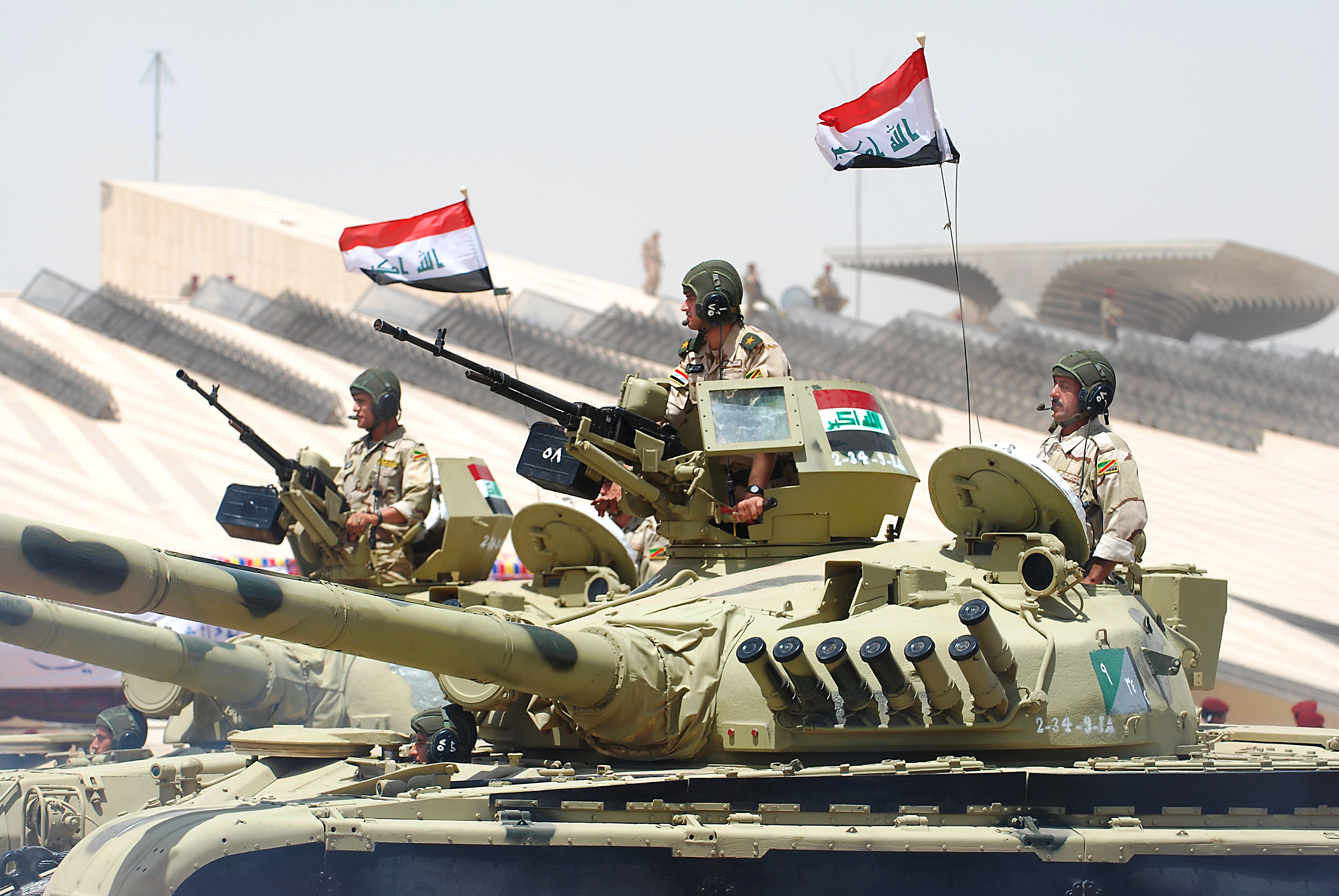 Iraqi security forces passed for review before those representing Iraqi military and civil leadership in Baghdad, June 30, 2009.